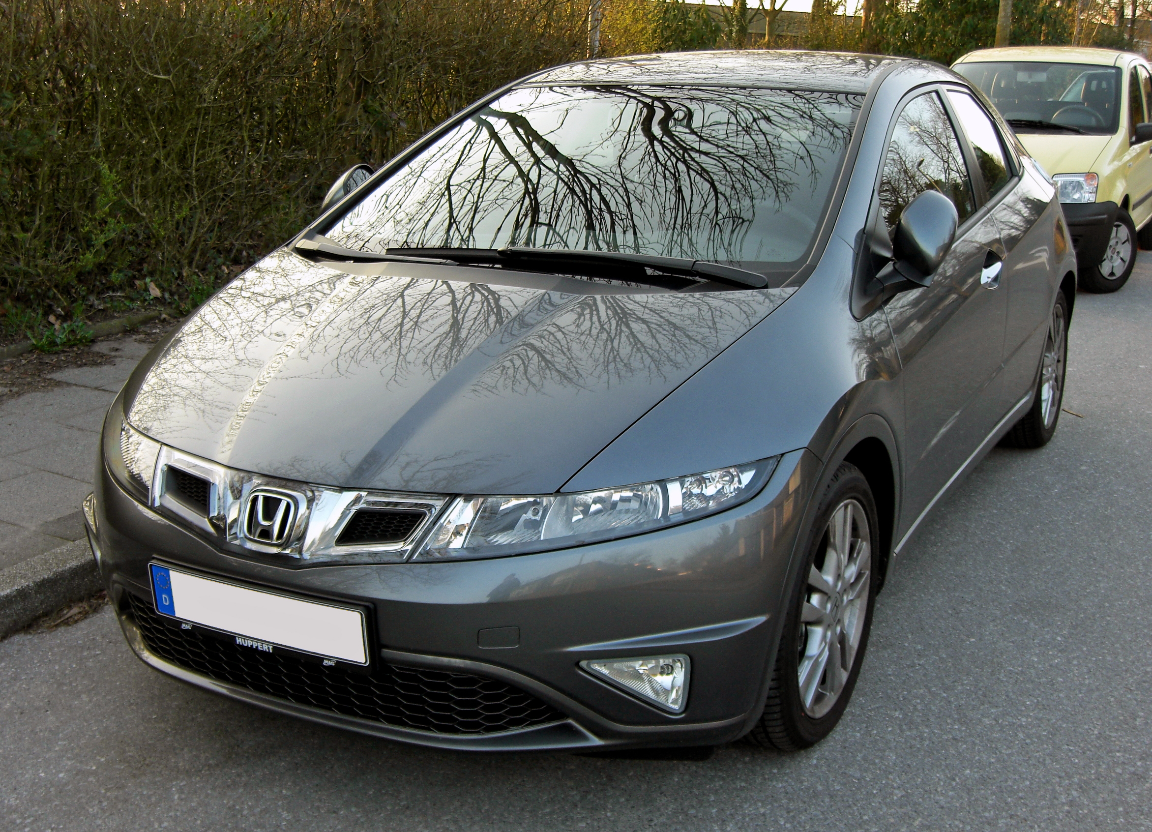 Honda Civic 8 Facelift